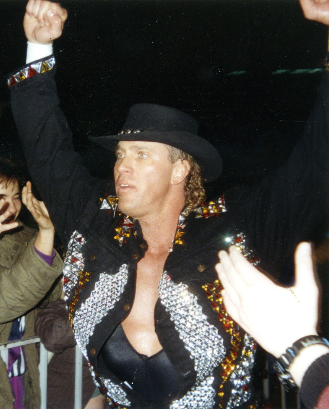 An image of professional wrestler Van Hammer from 1993.